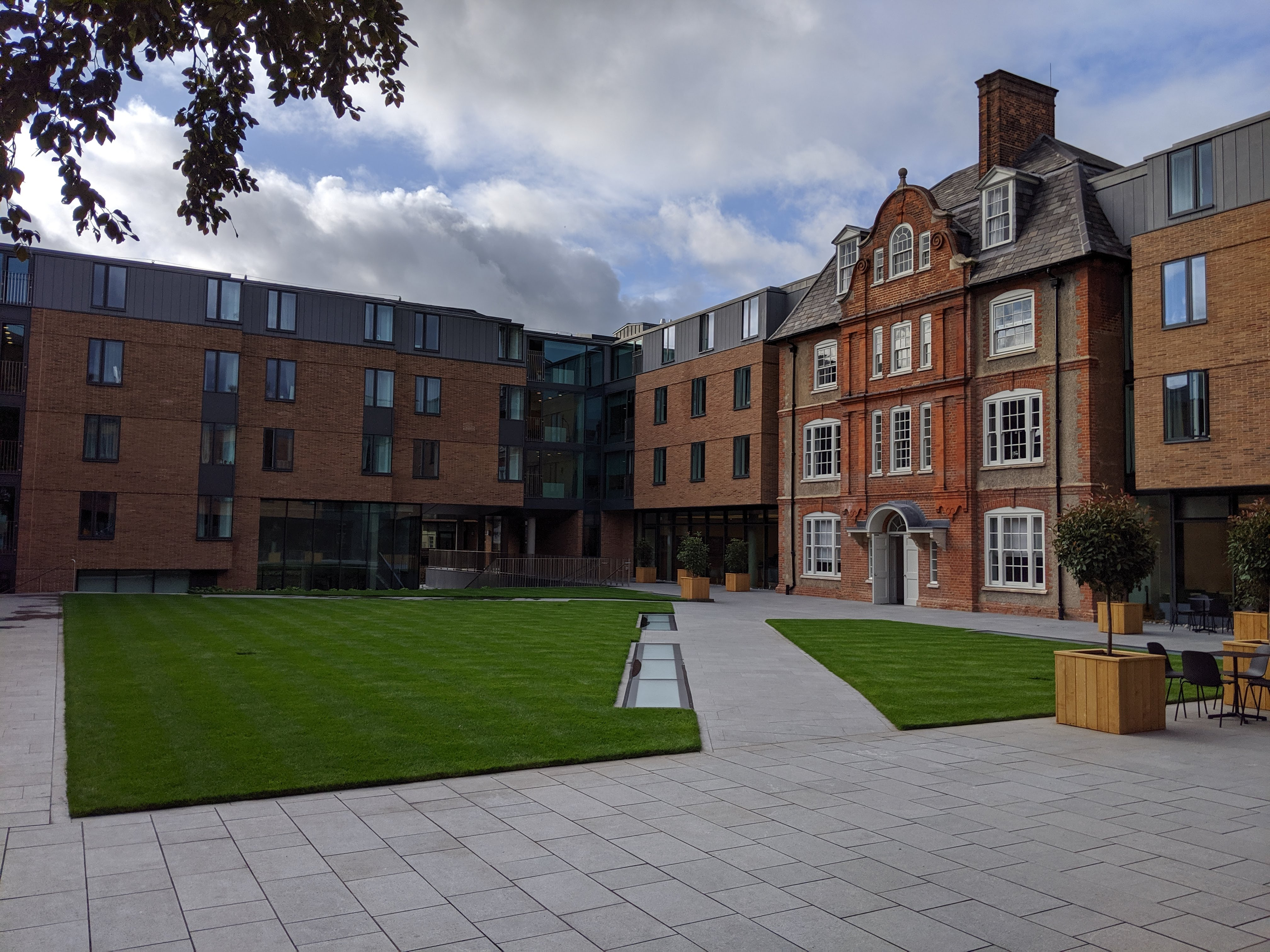 The center courtyard of the H B Allen Centre in 2019. The H B Allen Centre is the graduate center of Keble College, Oxford.